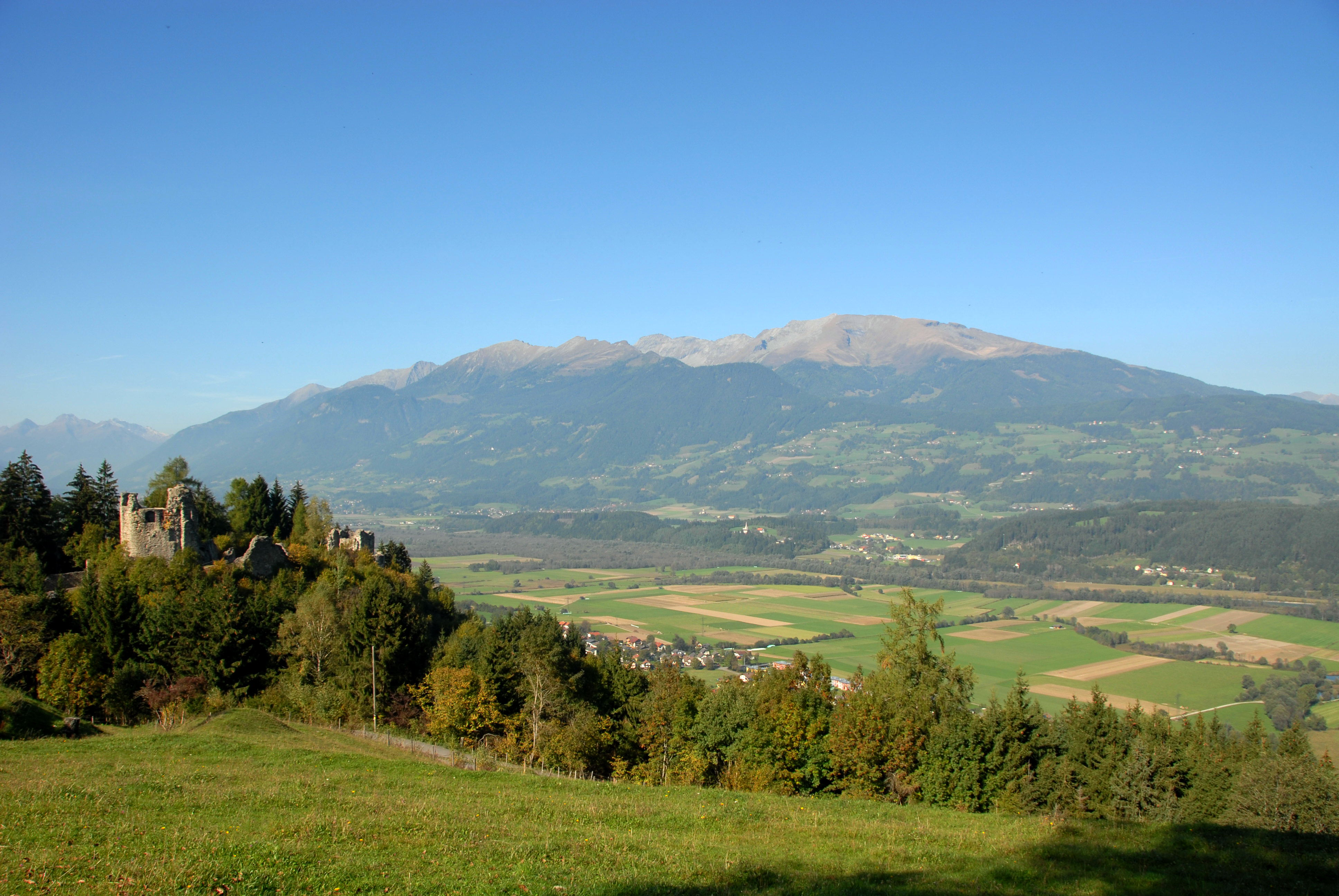 Ruin of castle Ortenburg in the community of Baldramsdorf, Carinthia, Austria